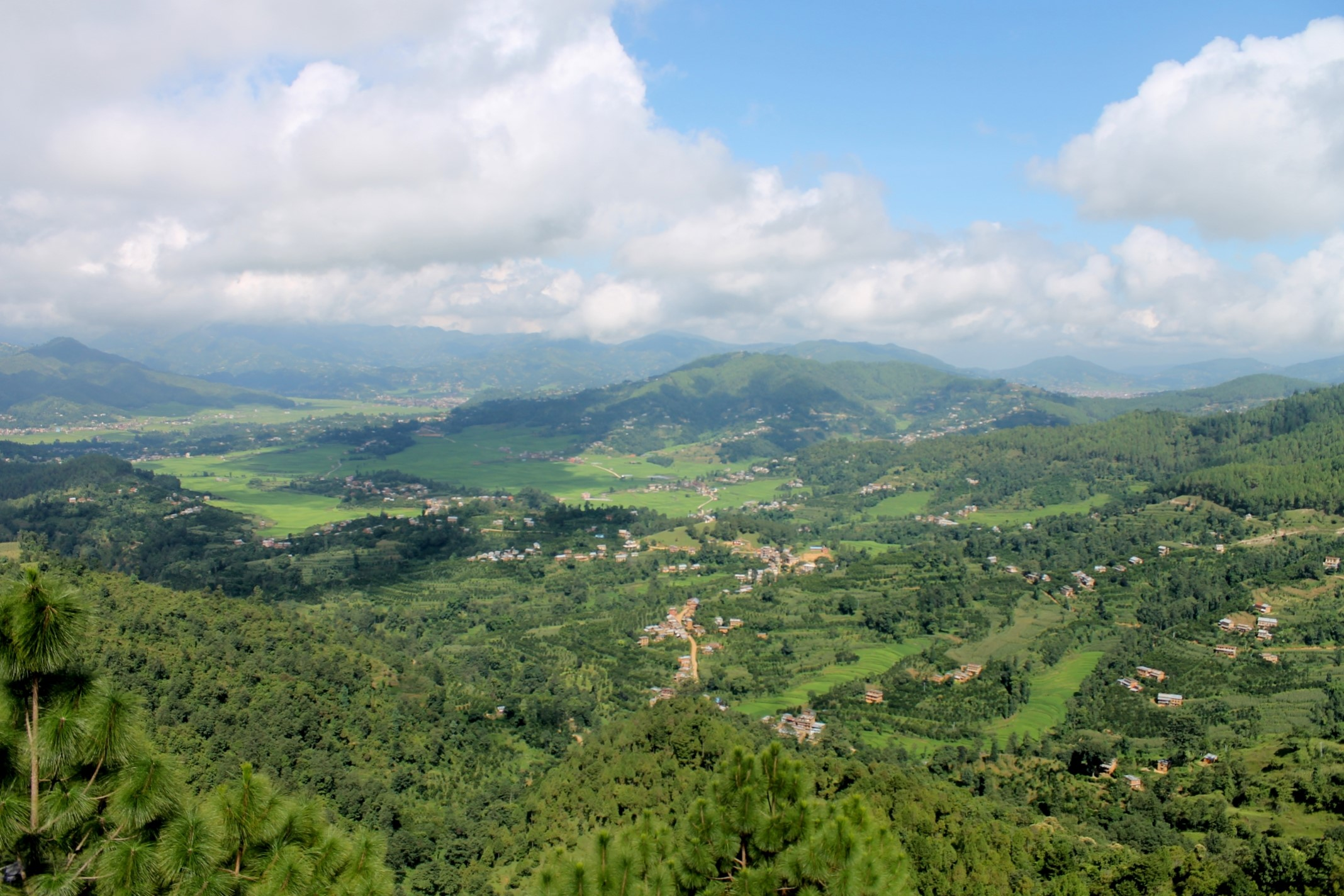 Sankhu Village lies nearby Namobuddha in the valley beneath.